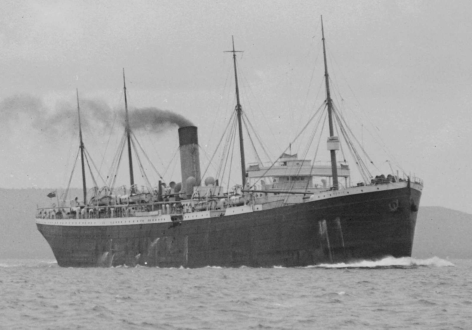 The steamship and „White Star Liner“ Runic.